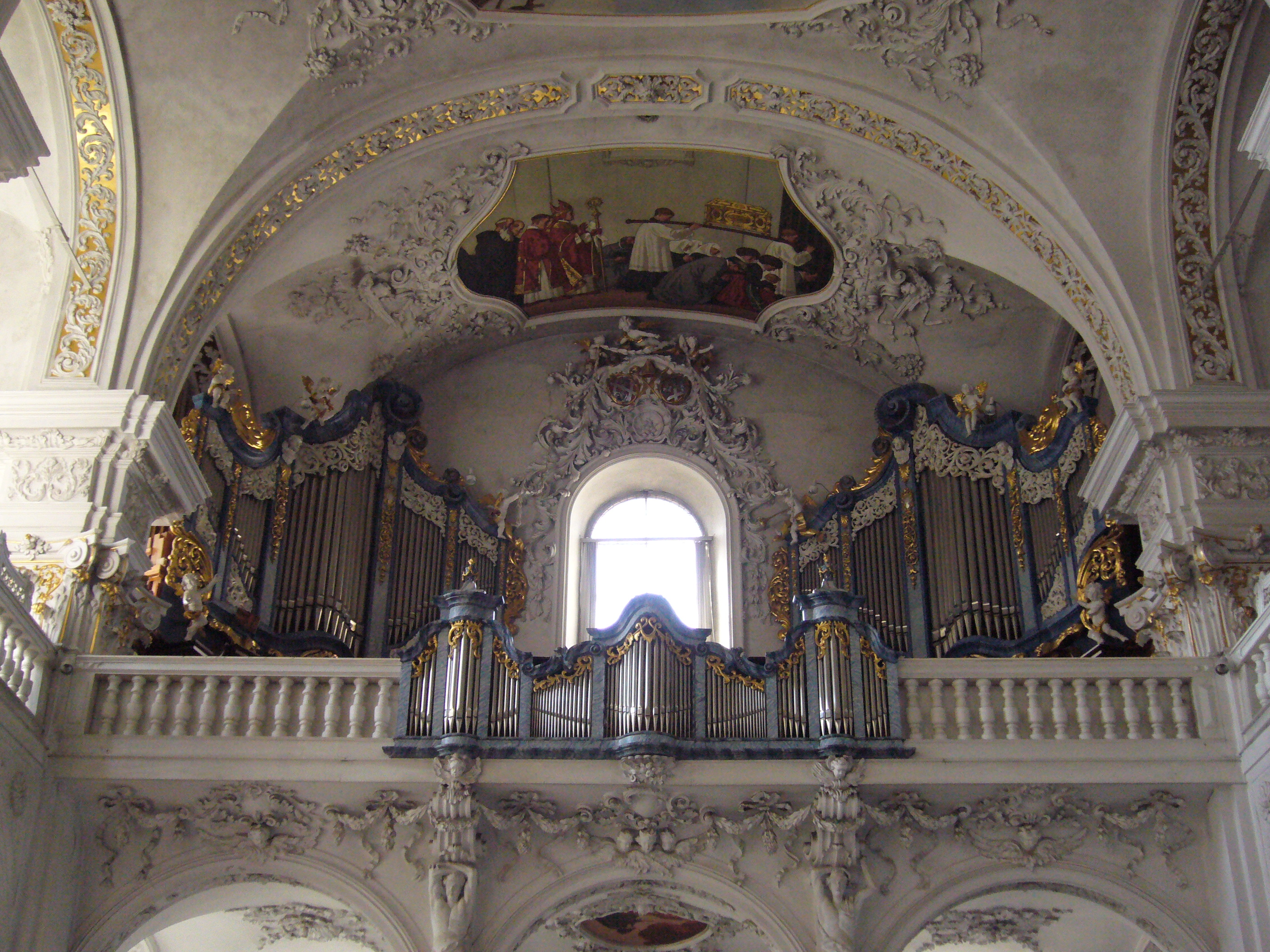 Gallery of the Church of the monastery Disentis, canton Graubünden, Switzerland. Picture taken by Peter Berger, July 31, 2006.